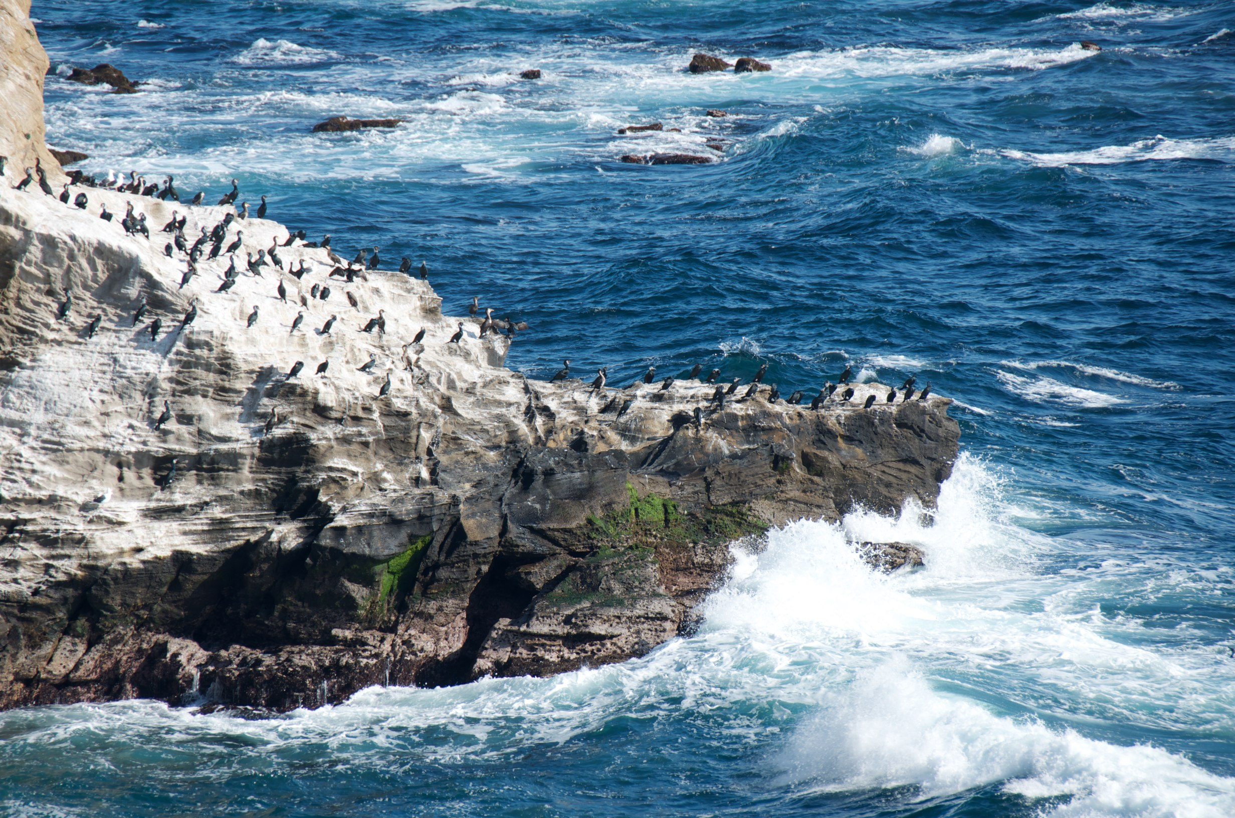 Japanese Cormorant Phalacrocorax capillatus flock on rocky coast, Jogashima Island, Japan